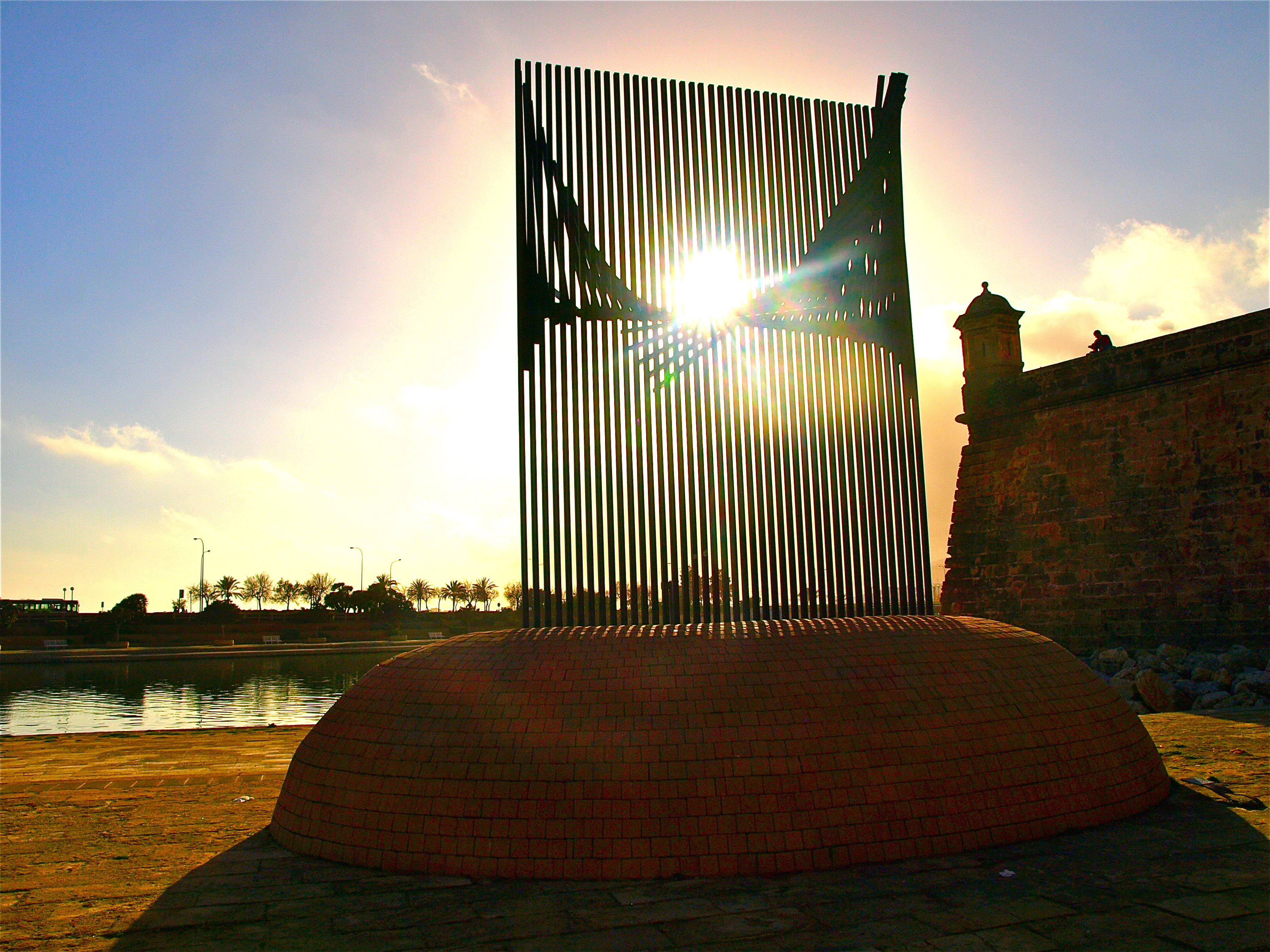 Sunset at Parc de la Mar, Palma